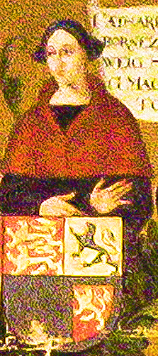 Catherine of Brunswick-Luneburg, Duchess of Schleswig and Countess of Holstein-Rendsburg